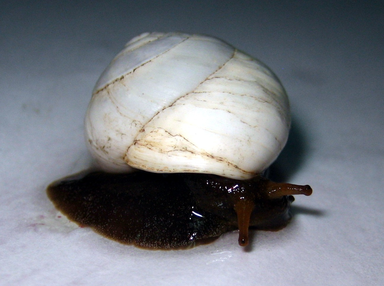 Sphincterochila candidissima, near Tortosa (Catalonia, Spain)